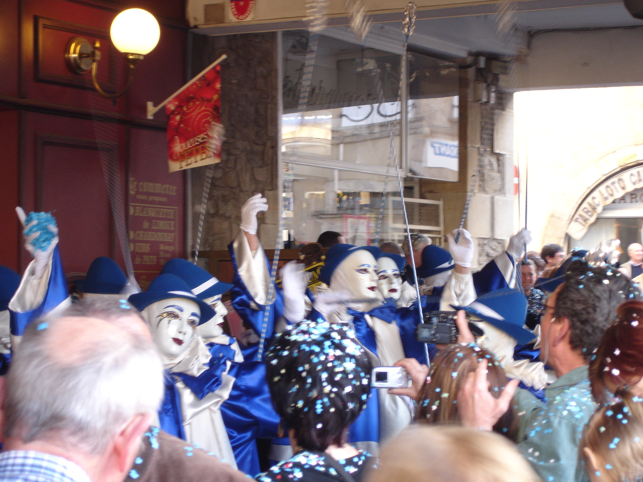 France, Aude (11), Limoux Carnivl